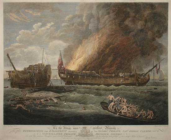 Engagement between the Quebec Frigate, Cap'n. George Farmer, and the Surveillante Frigate, Monsieur Couëdic